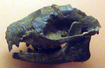 Ectocion ralstonensis 58 - 55 million years ago Late Paleocene